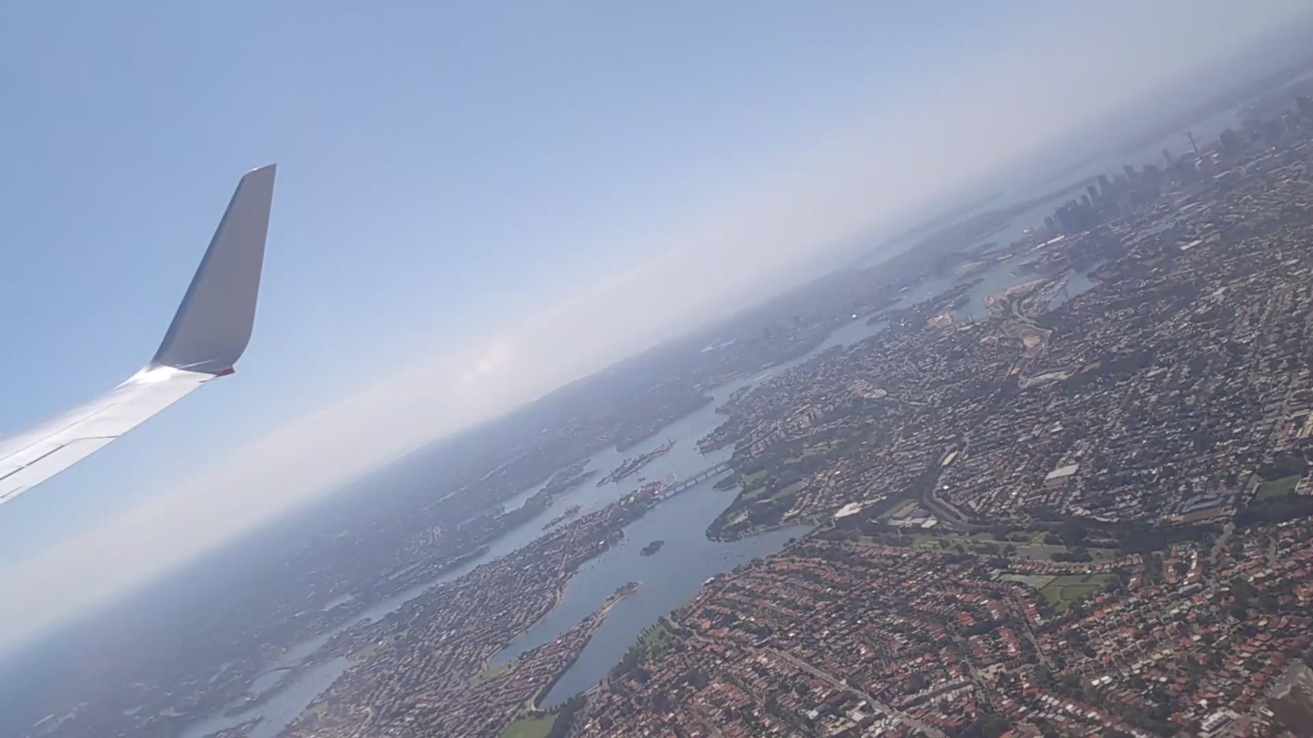 Sydney City, taken over Haberfield, Sydney, on 15th of March, 2018.